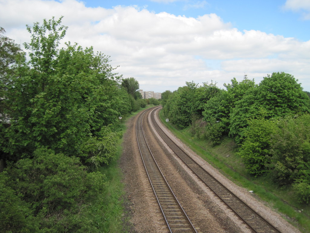 Osmondthorpe Halt railway station (site), YorkshireOpened in 1930 by the London and North Eastern Railway on the line from Leeds to Selby and York, this station closed in 1960. View north east towards Crossgates and York. At the time it was open, there were four tracks here with the wooden platforms beside the outermost tracks. No trace now remains.